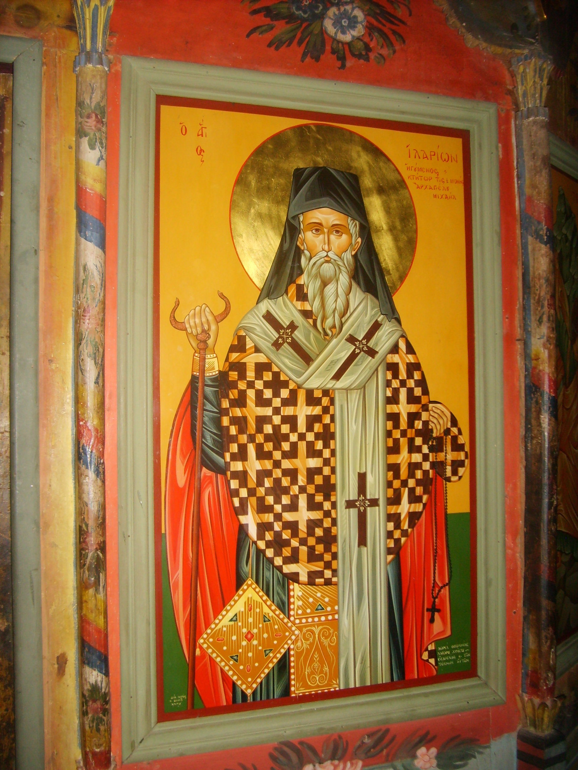 Saint Hilarion of Meglen, Archangelos Monastery, Almopia, Greece